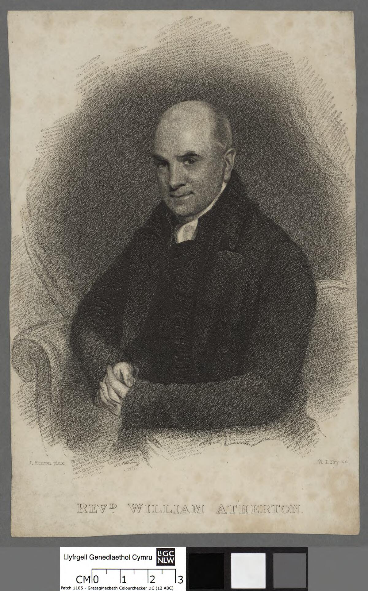 A portrait from the Welsh Portrait Collection at the National Library of Wales. Depicted person: William Atherton